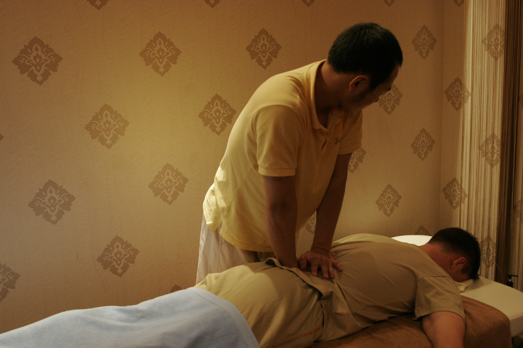 Sport Massage at The Foot Shop, Art Nouveau building 4th floor 415-416 ,Euljiro-2Ga 199-39 , Jung-gu, Seoul